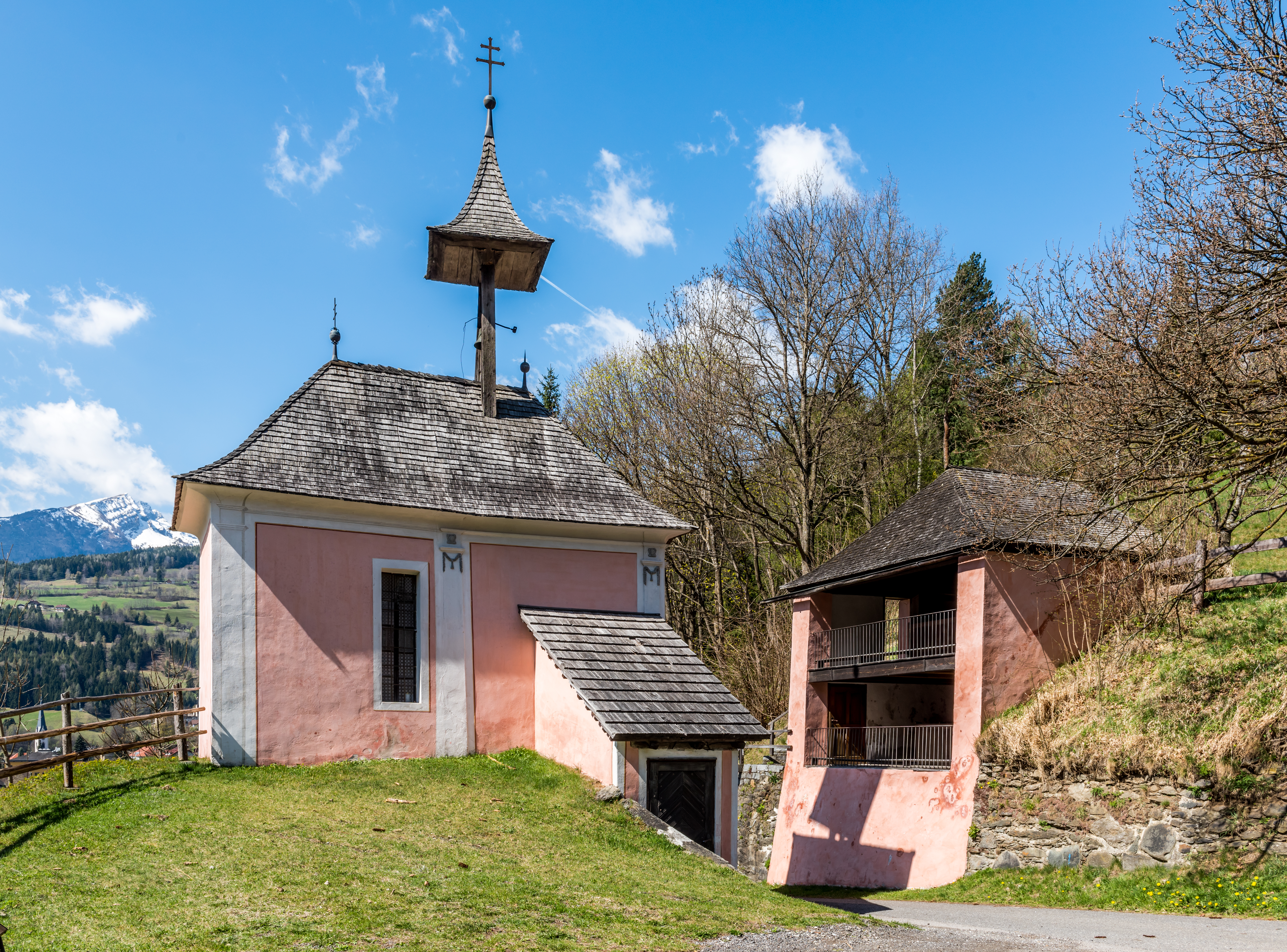 Cleft Kreuzbichl chapel, municipality Gmünd, district Spittal an der Drau, Carinthia, Austria, European Union